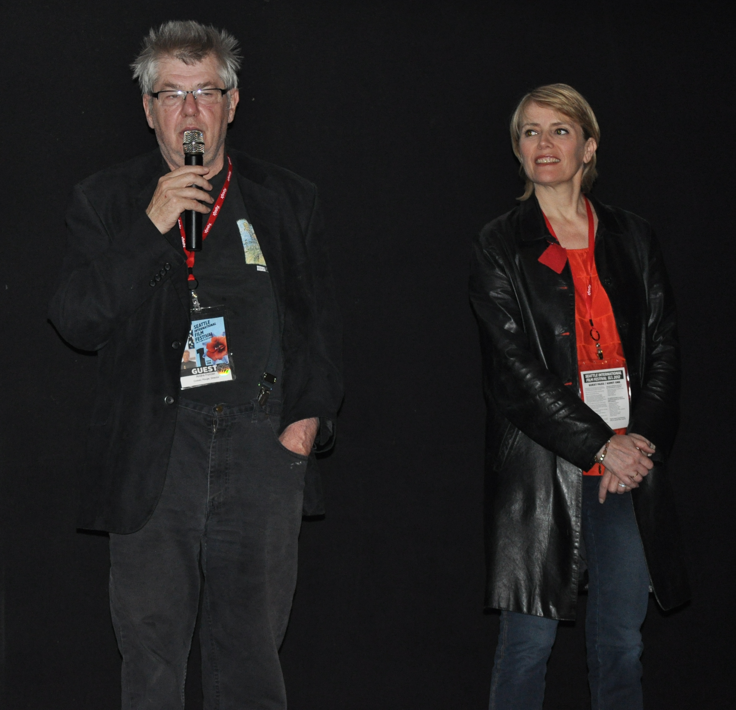 Director André Forcier & actress Hélène Reeves at the Pacific Place AMC (Seattle, Washington) as part of the Seattle International Film Festival's showing of Forcier's Coteau Rouge, in which Reeves appears.